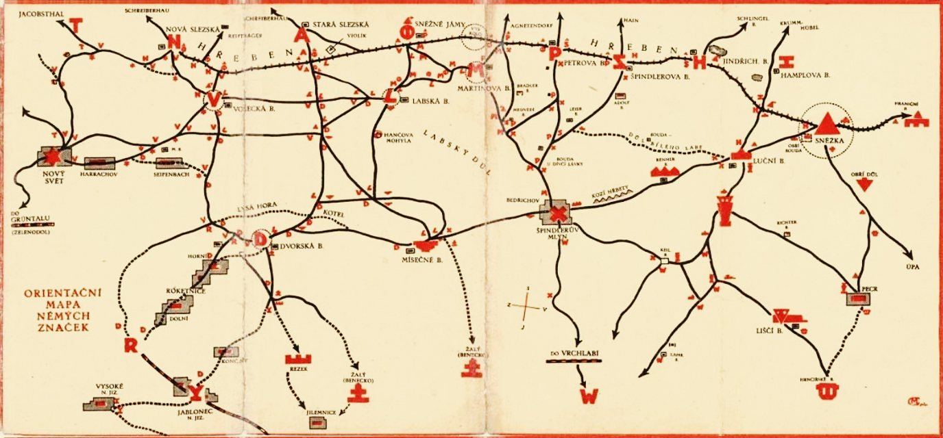 Orientation map with "Mute Signs"